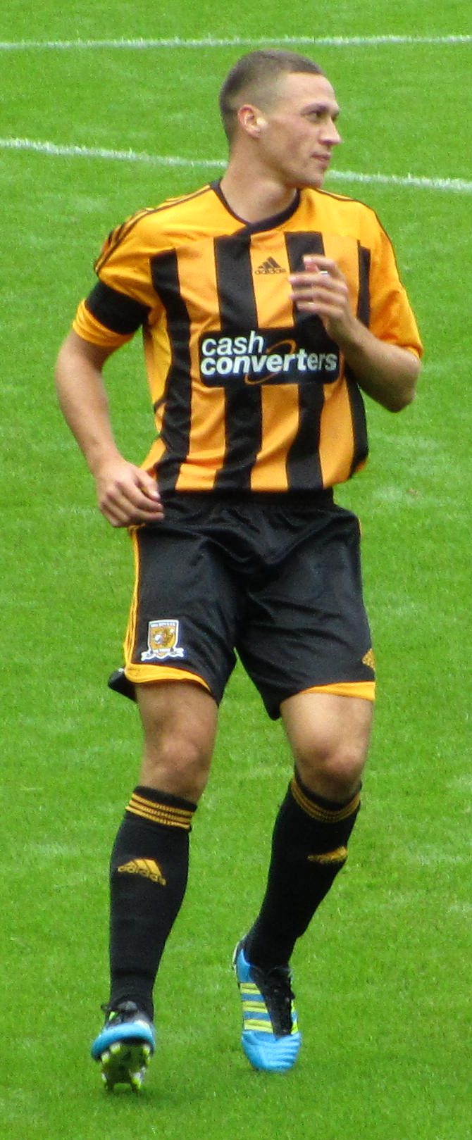 James Chester